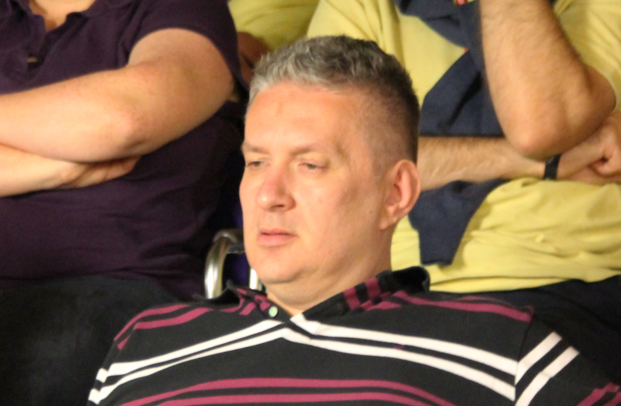 Tony Drago beim Paul Hunter Classic 2012